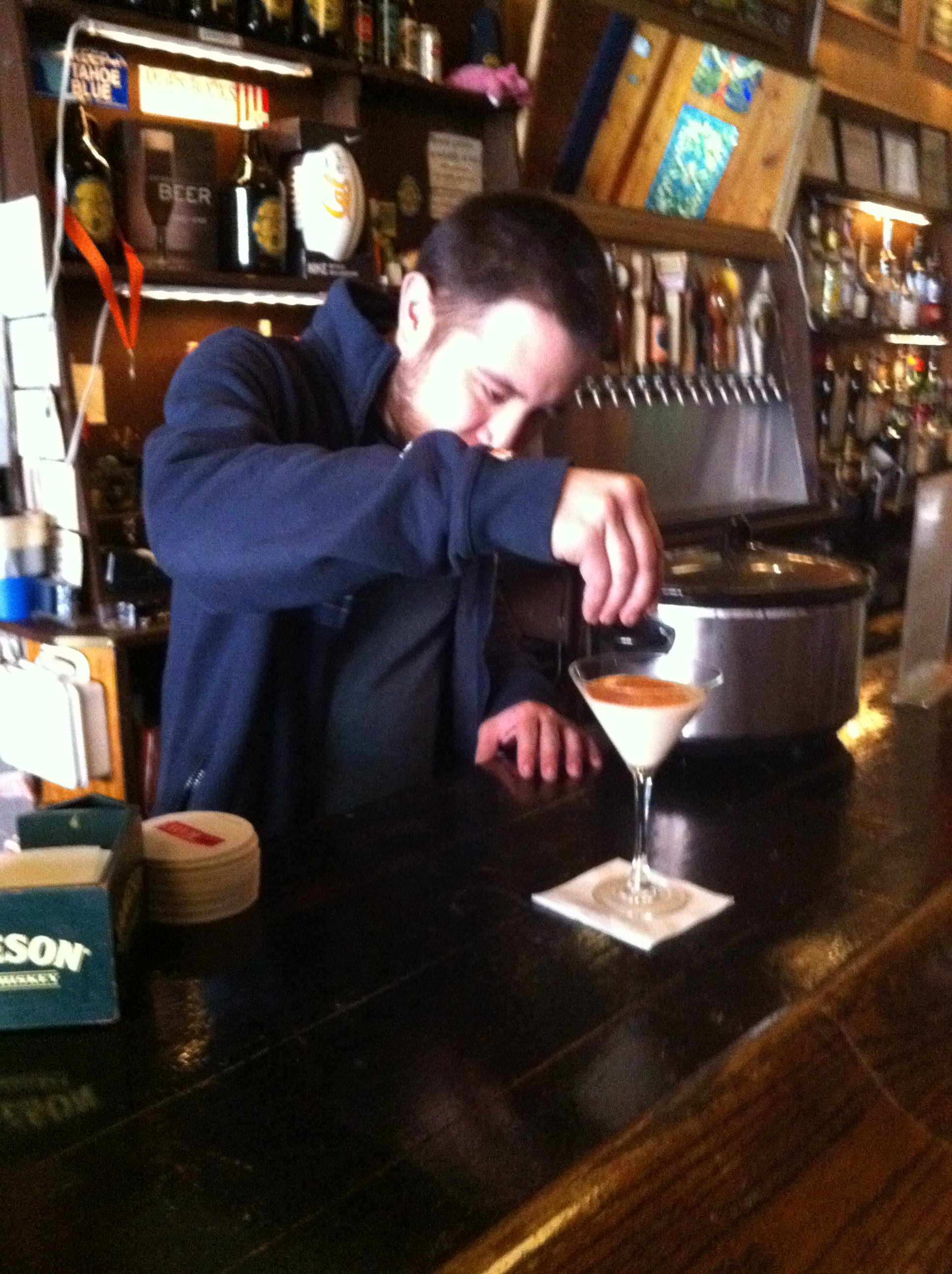 Pacific Standard bar owner Jonathan M. Stan at the bar, preparing the Santorum cocktail drink.